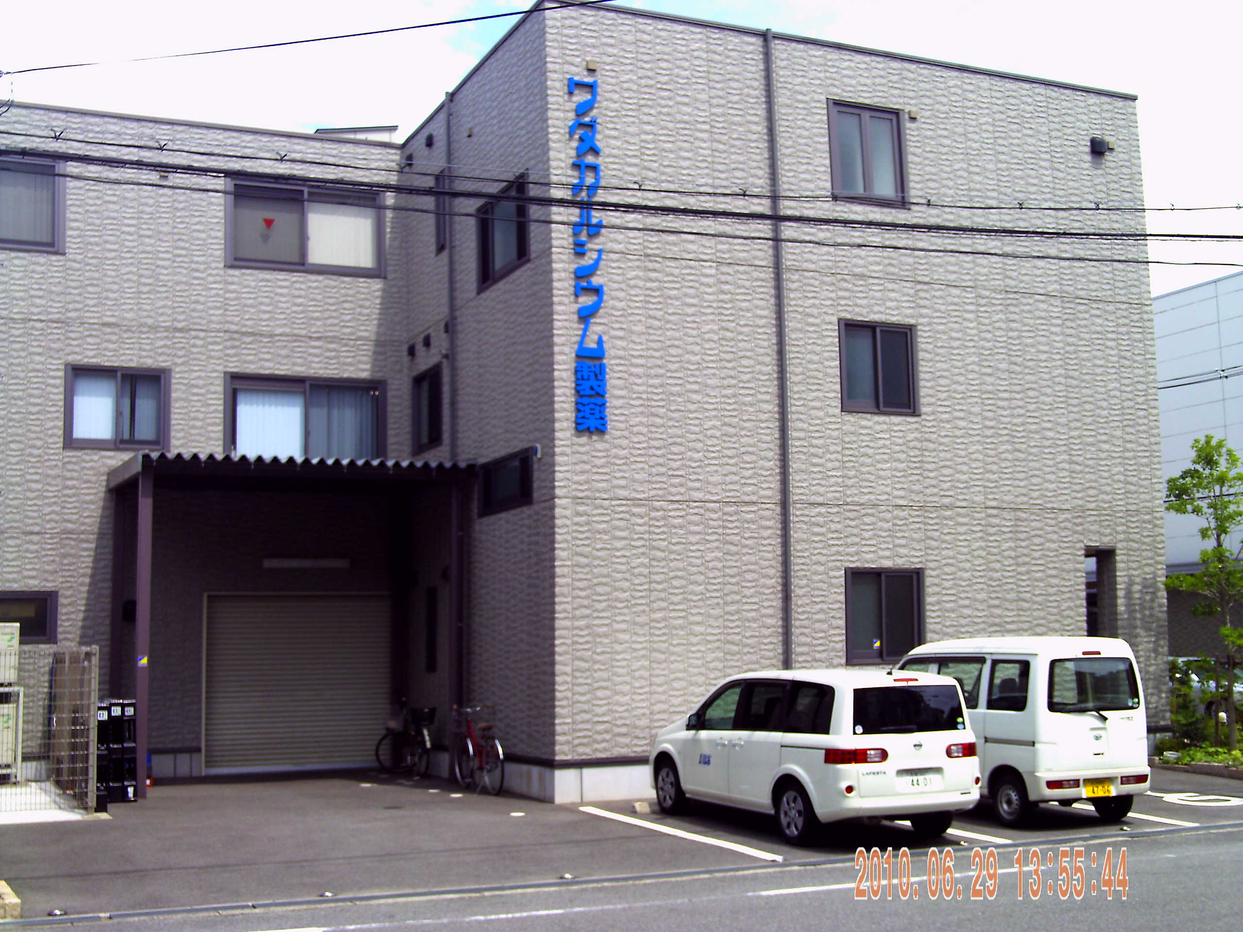 Wada_Calcium